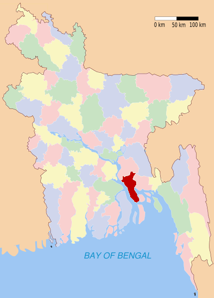 District locator map in red in Bangladesh